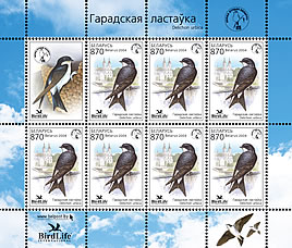 Stamp of Belarus